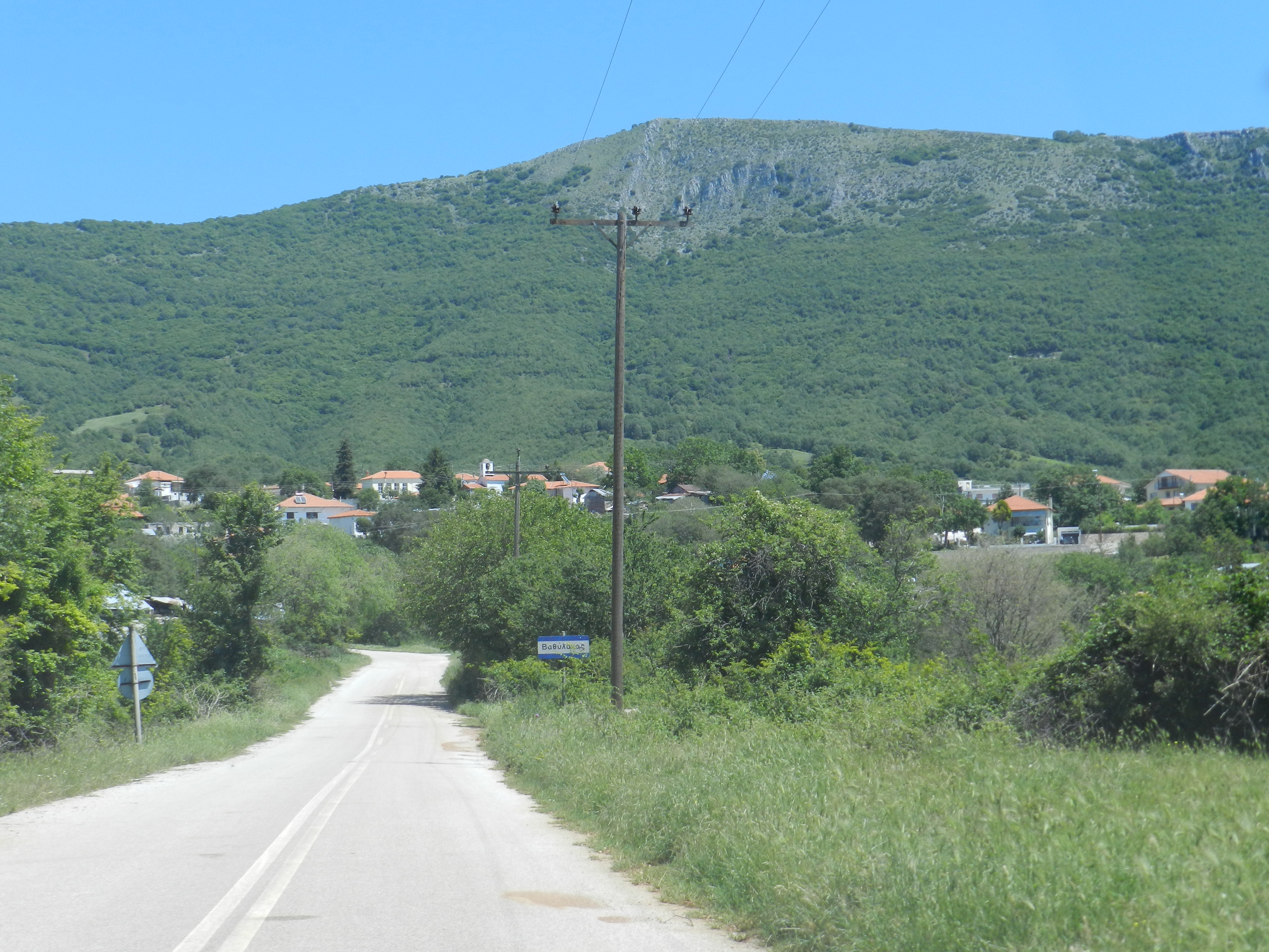 Βαθύλακκος